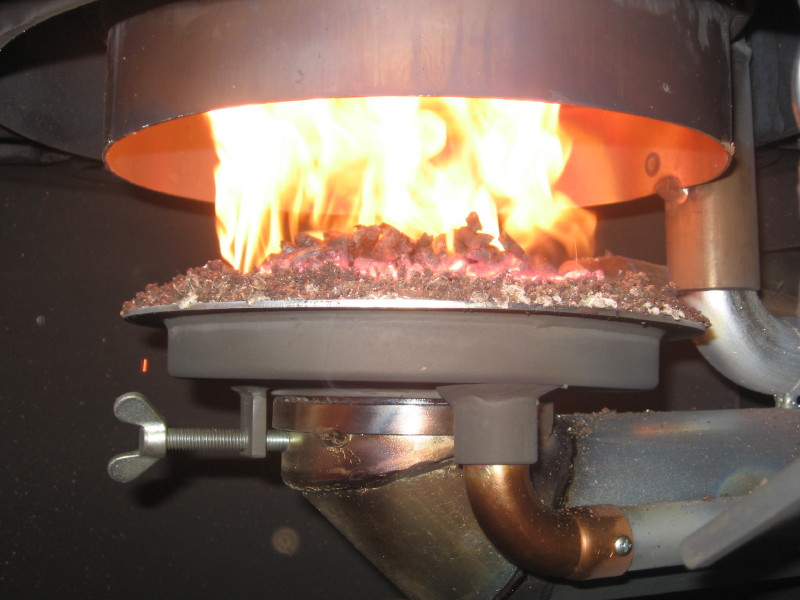 Inside a woood-pellet heater